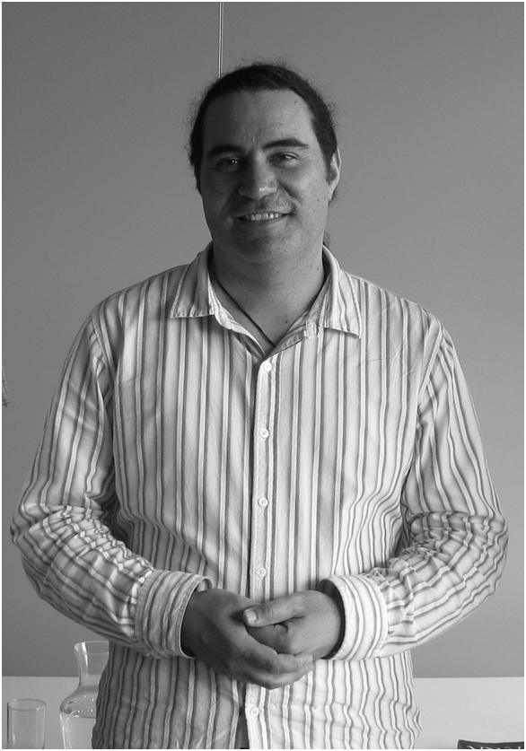 Robert Sullivan (Māori writer from Aotearoa New Zealand)